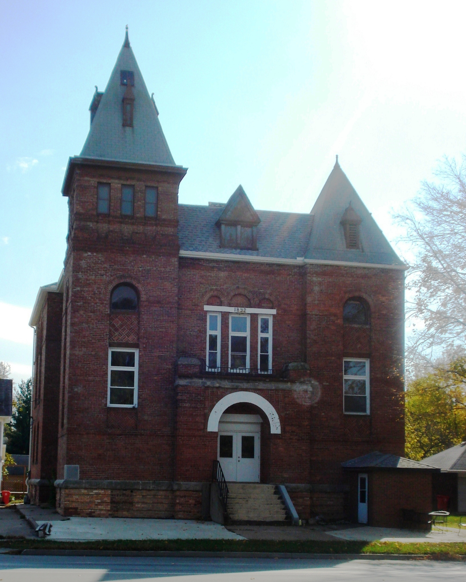 Atkinson Hall, also known as American Legion Hall, Shearer Post #350, is a building in Geneseo, Illinois.